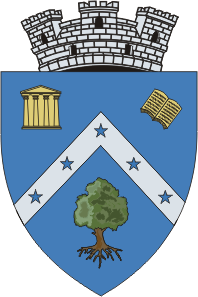 Coats of arms of Buftea city